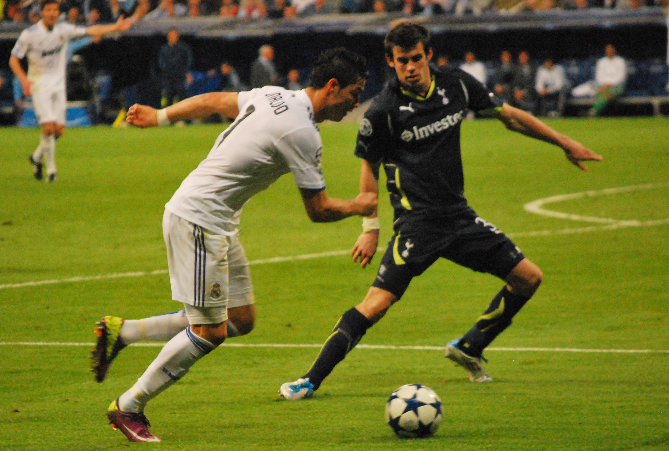 Cristiano Ronaldo and Real Madrid against Gareth Bale and Tottenham in the UEFA Champions League.